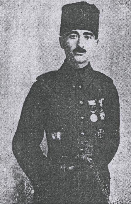 Halil Bey (Kut)